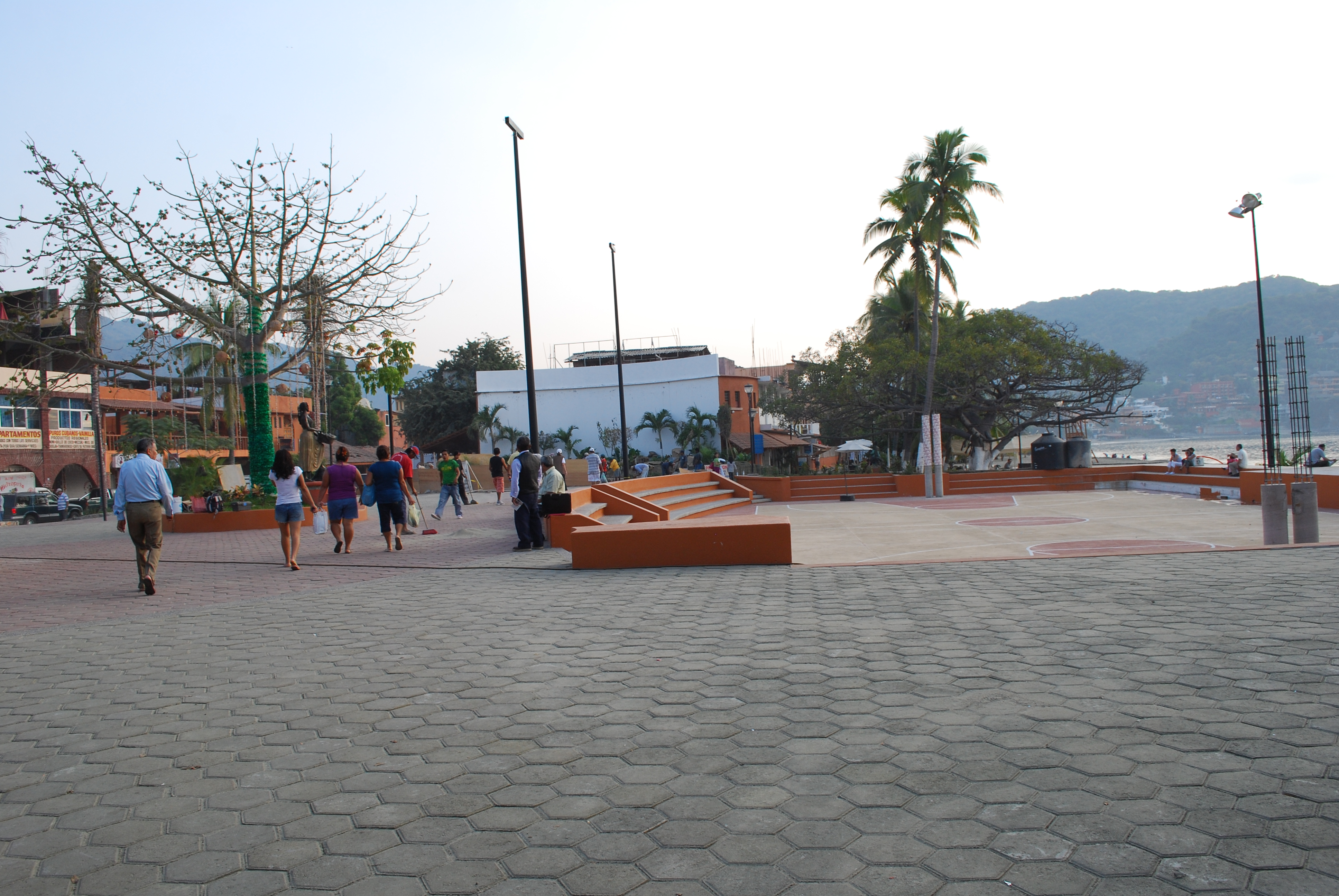 Main plaza with basketball court in Zihuatanejo, Mexico